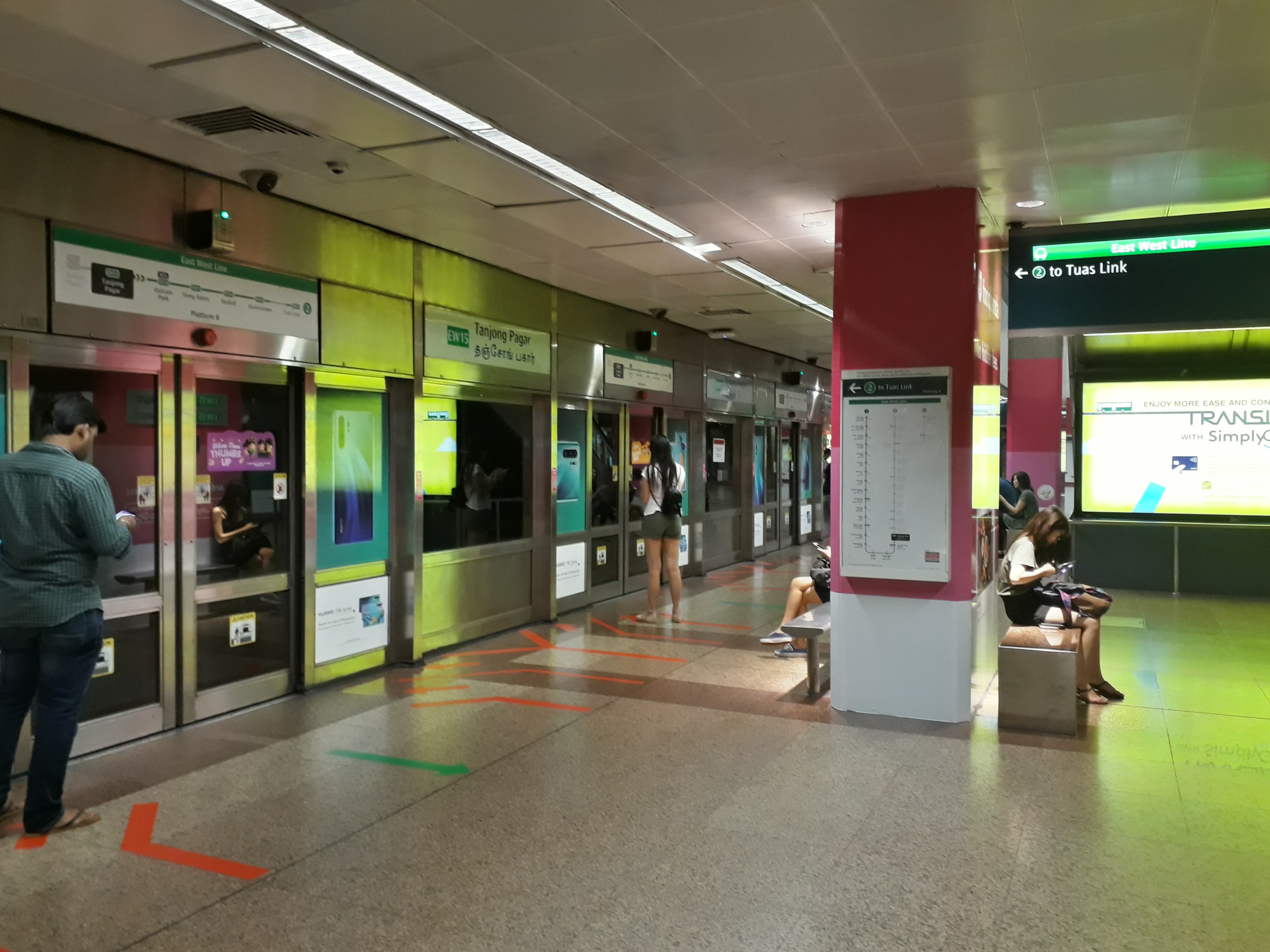 Tanjong Pagar